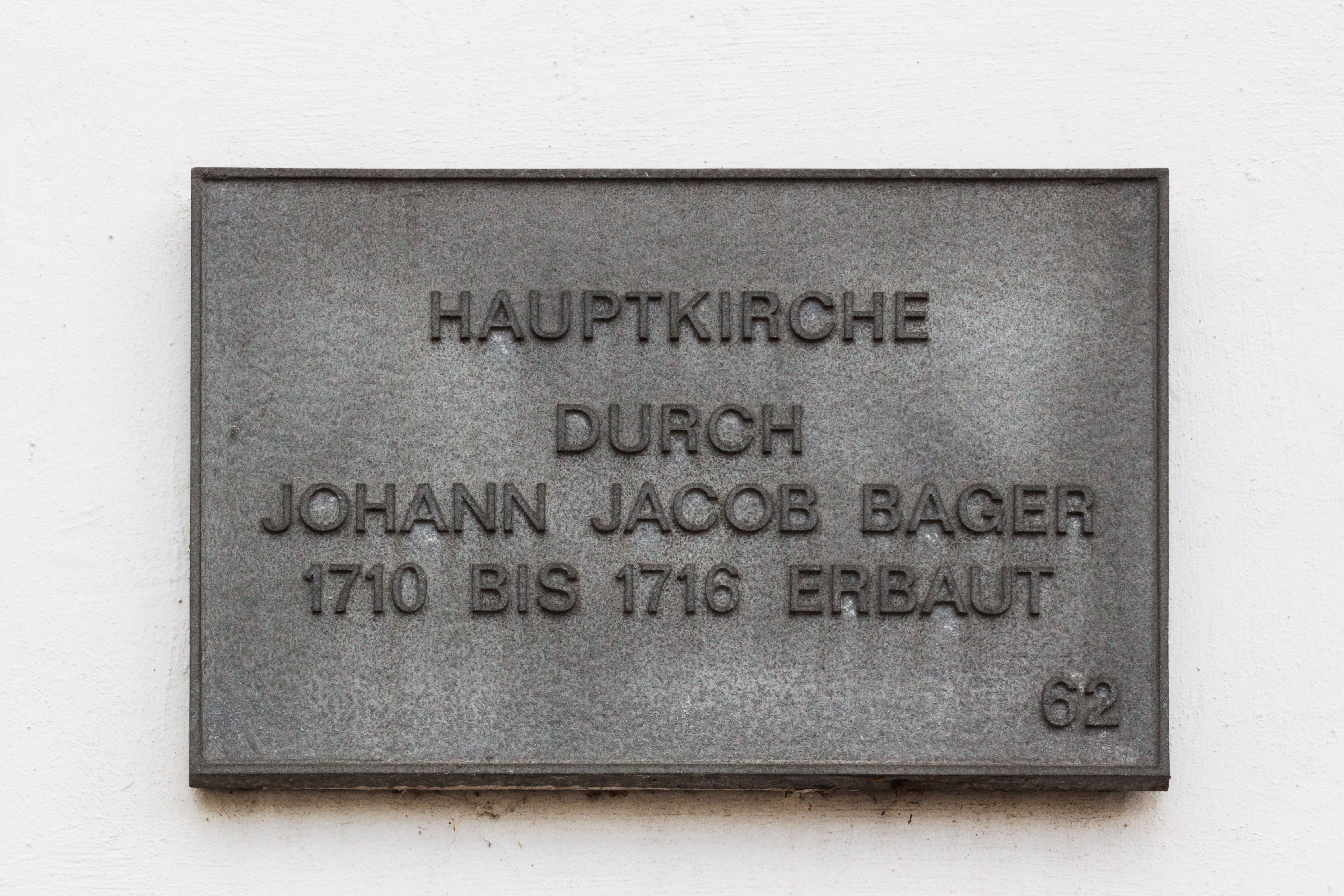 The plaque on the Hauptkirche ("main church") in Wiesbaden-Biebrich.